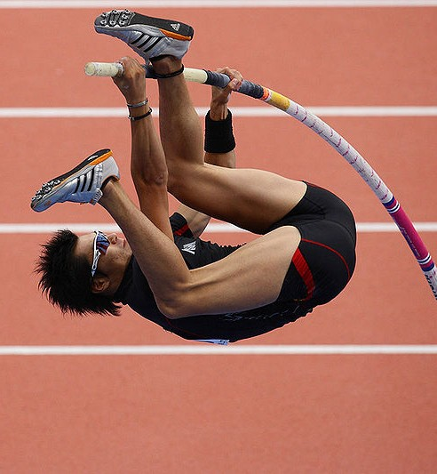 JUNE 28, 2008 - Track and Field : Daichi Sawano in aciton during the Men's paul vault final in the 92nd Japan Athletics Championships at Todoroki Stadium on June 28, 2008 in Kanagawa, Japan. (Photo by Tsutomu Takasu)